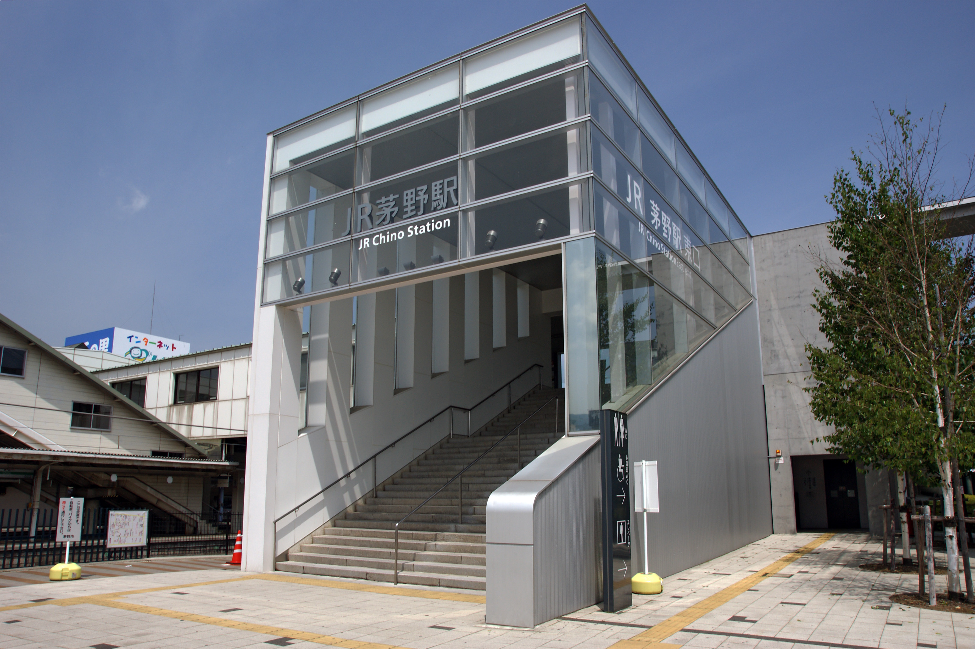 Chino Station, Chino, Nagano prefecture, Japan